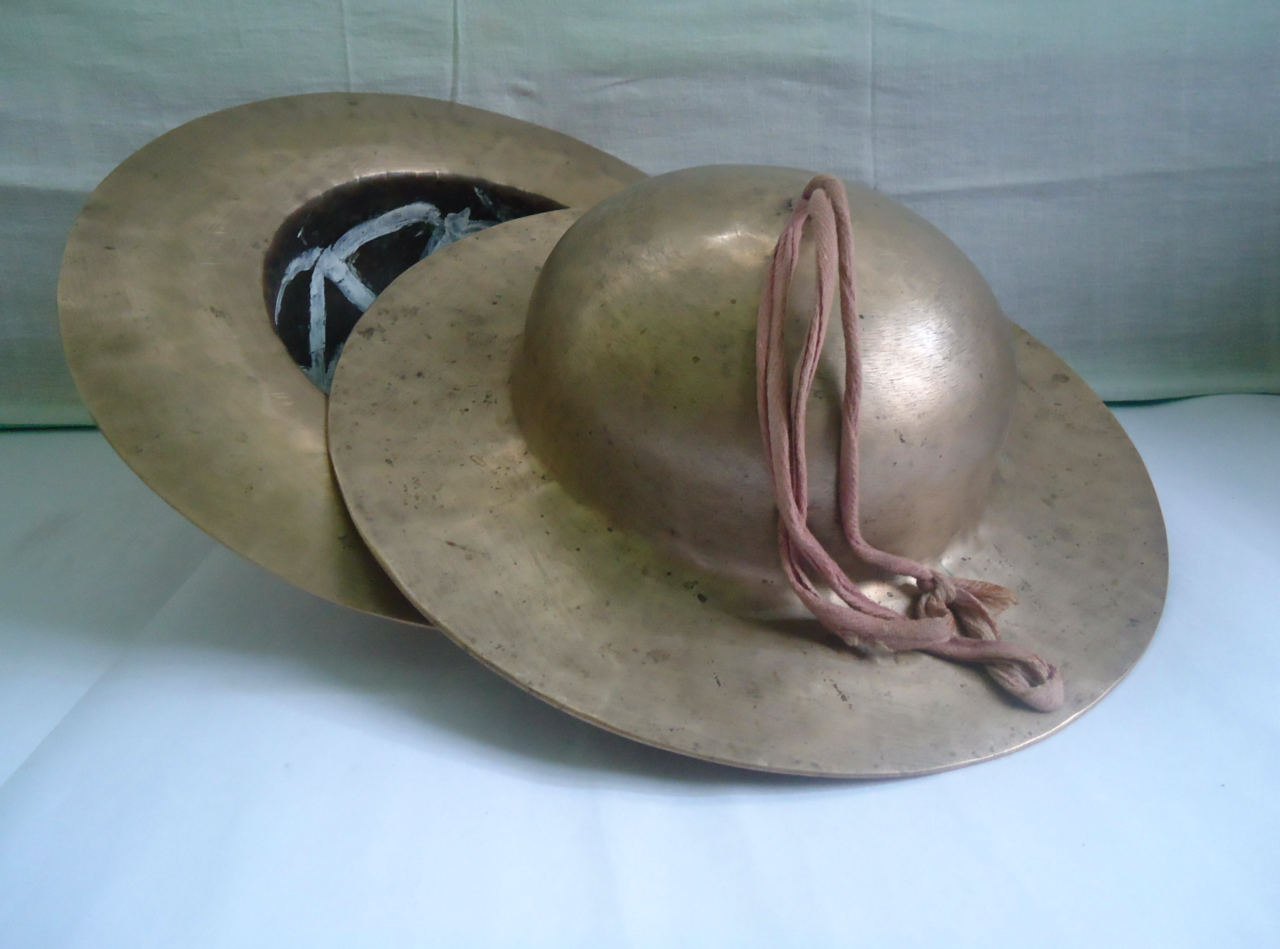 ভোঁৰ তাল